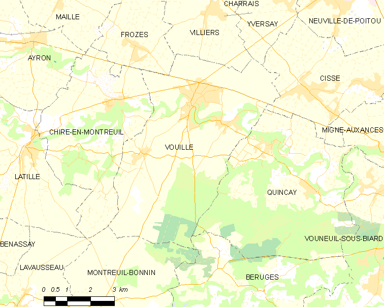 Map of French municipality Vouillé